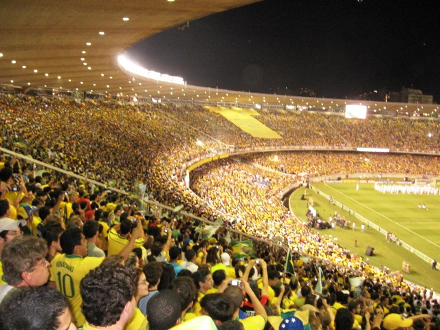 A view to Maracanã Stadium in Rio de Janeiro, Brazil. World Cup 2010 qualifying match between Brazil and Ecuador.